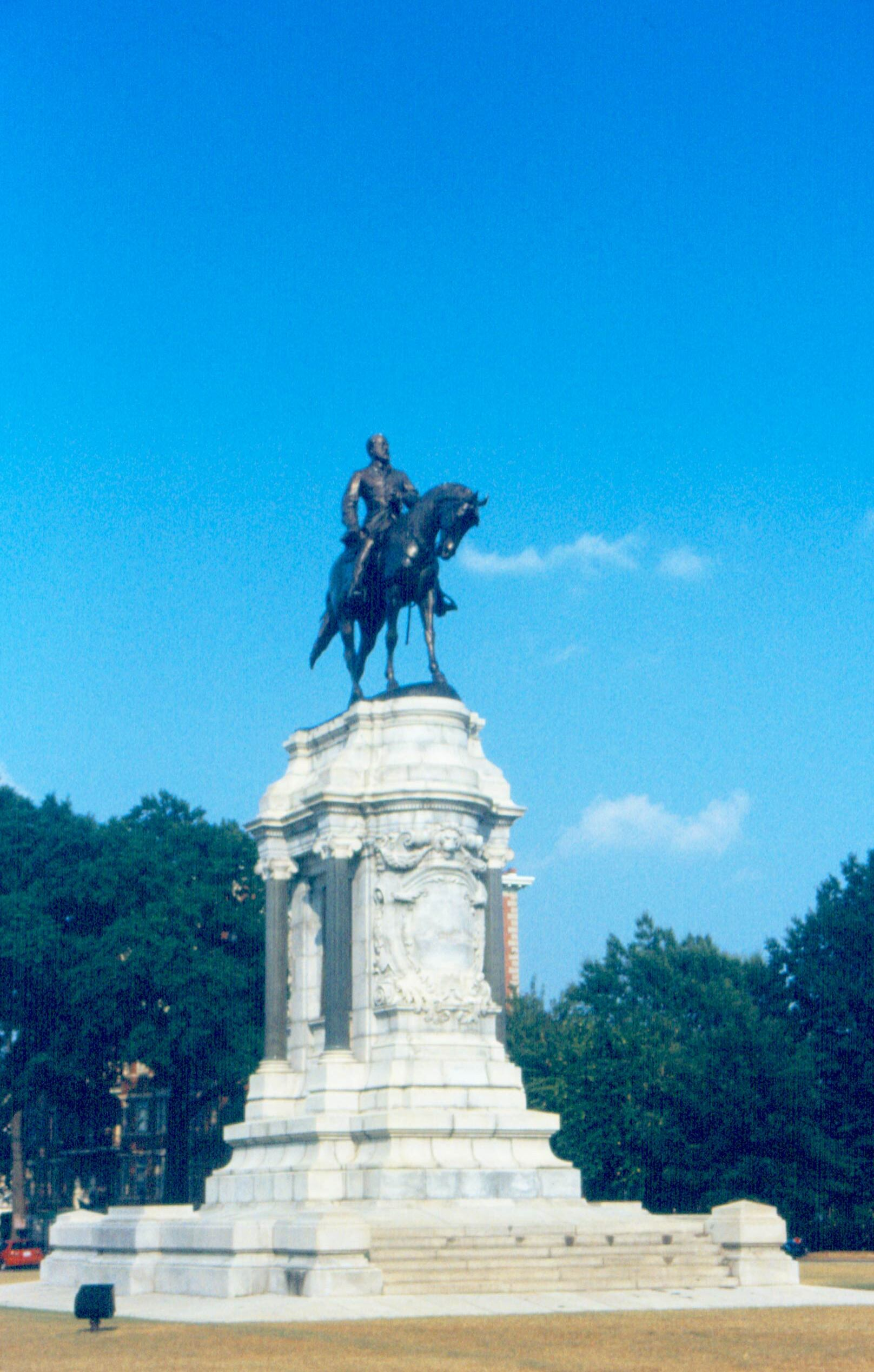 photo by Einar Einarsson Kvaran, Carptrash 07:05, 31 January 2006 (UTC) for Robert E. Lee and maybe en: Jean Antonin Mercié